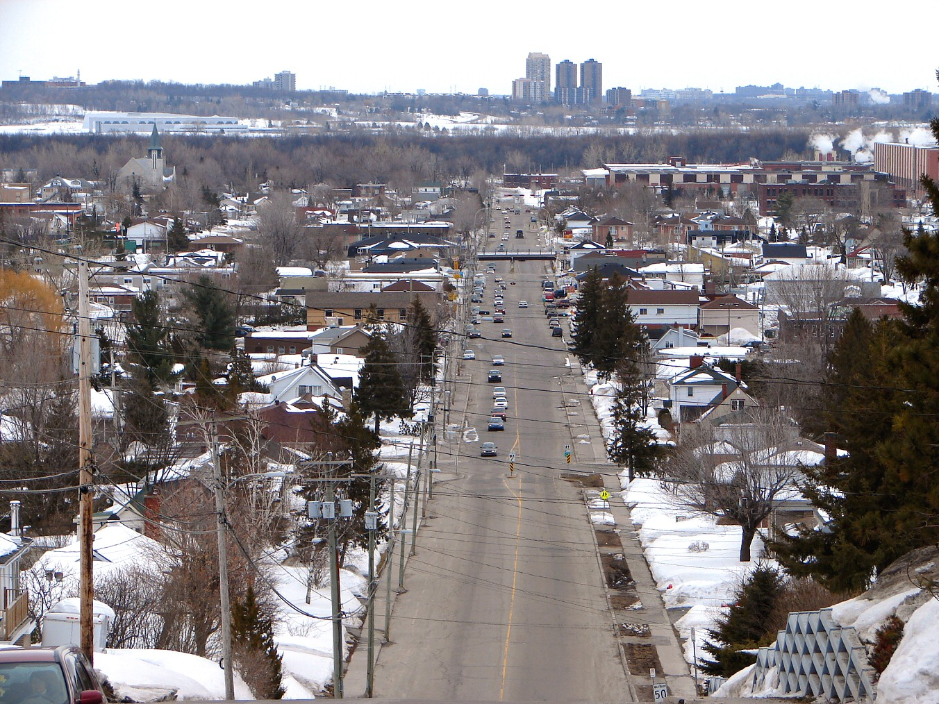 Main Street in "original" old Gatineau, Quebec, Canada. The highrise buildings on the horizon are across the Ottawa River in Ottawa, Ontario, along St-Laurent Boulevard.